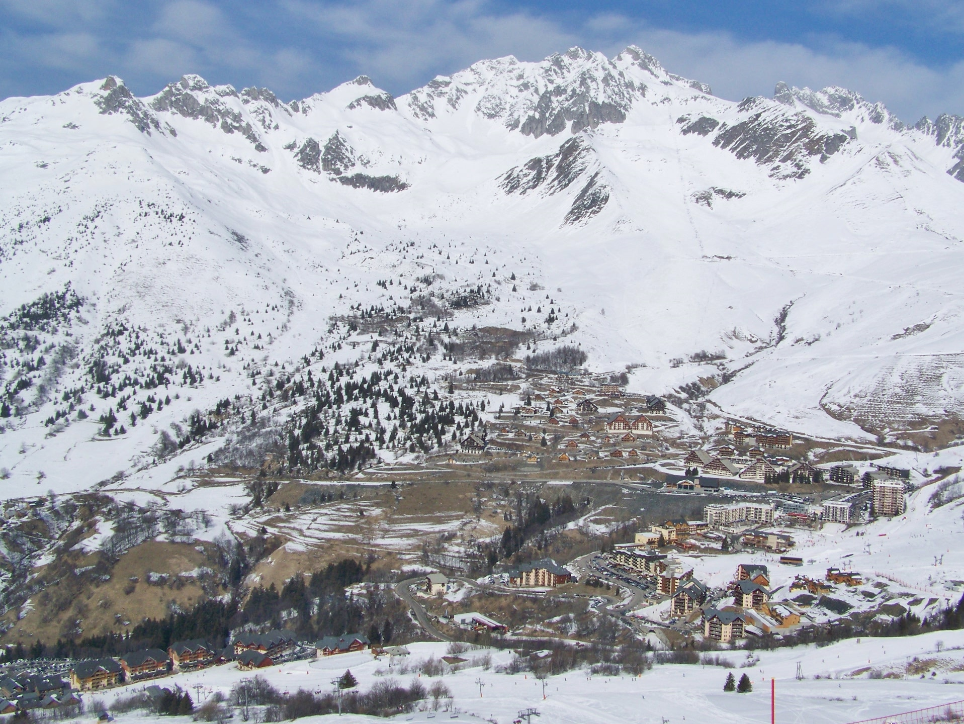 Sight of village and ski resort of Saint-François-Longchamp-Montgellafrey in the Alps of Savoie, France.